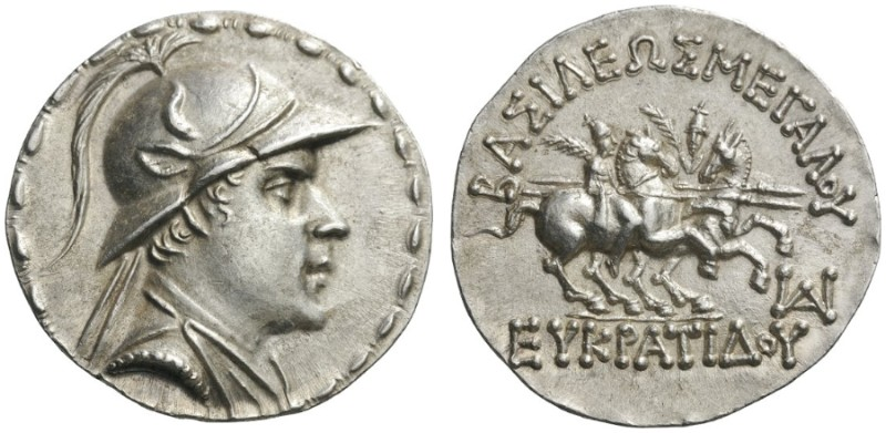 BAKTRIA, Greco-Baktrian Kingdom. Eukratides I, c. 170-145 BC. Tetradrachm (Silver, 32mm, 17.00 g 12), c. later 160s. Diademed and draped bust of Eukratides to right, wearing Macedonian helmet adorned with bull�s horn and ear. Rev. / The Dioskouri galloping to right, each holding spear and palm branch; below right, monogram.